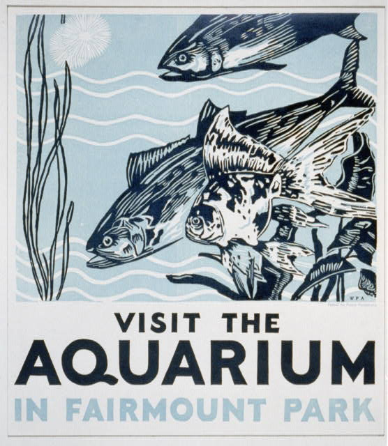 Poster promoting the aquarium in Fairmount Park as a place to visit, showing fish.